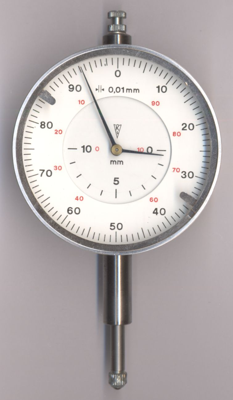 Dial gage made in GDR by FMS Keilpart Suhl in 1976